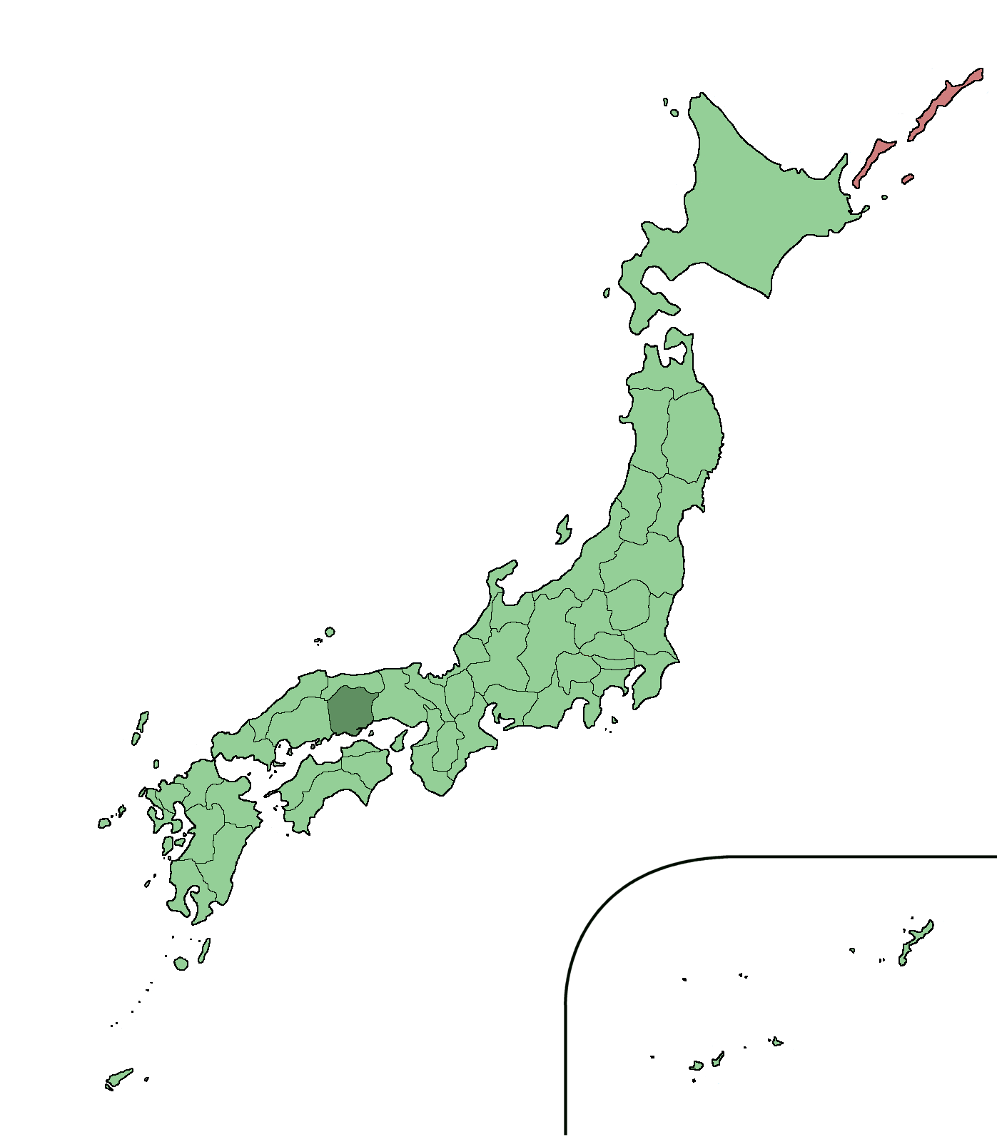 Large size map of Japan with Okayama highlighted, self made but originally based on a japanese mapbook.